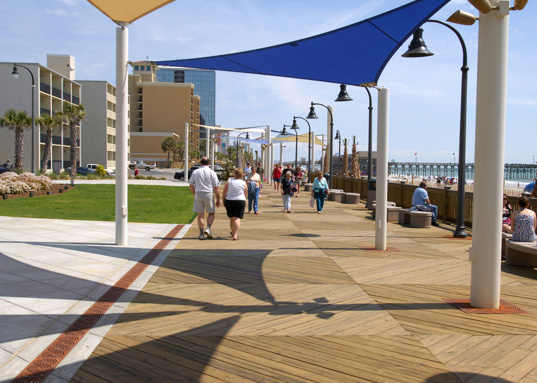 Myrtle Beach, South Carolina, USA. Residents and tourists enjoy a day at the beach. Myrtle Beach is 60 miles of soft, sandy beach, entertainment and attractions for everyone, endless shopping, exquisite dining, thrilling water sports and more.